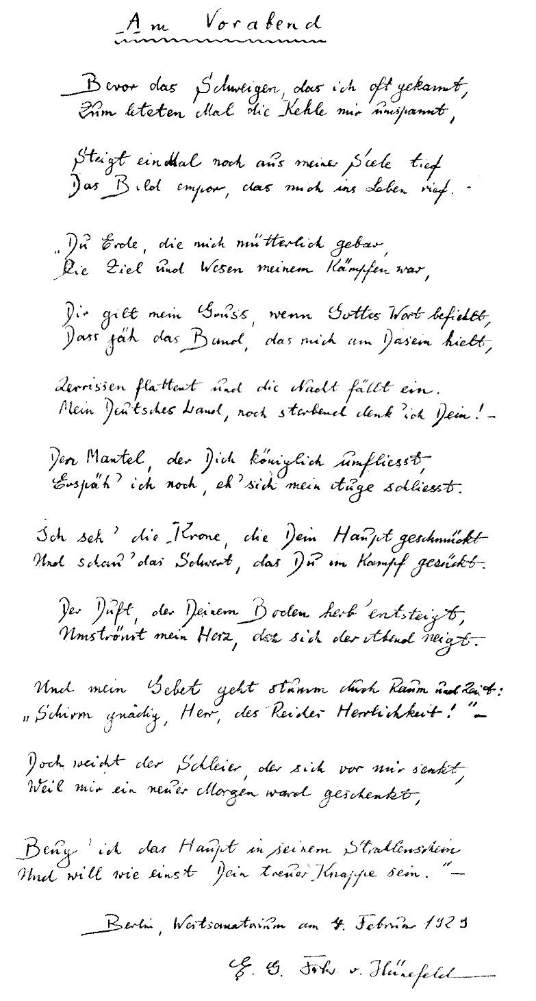 Last poem by Ehrenfried Günther Freiherr von Hünefeld (german aviation pioneer), wrritten the day before he died in february 1929